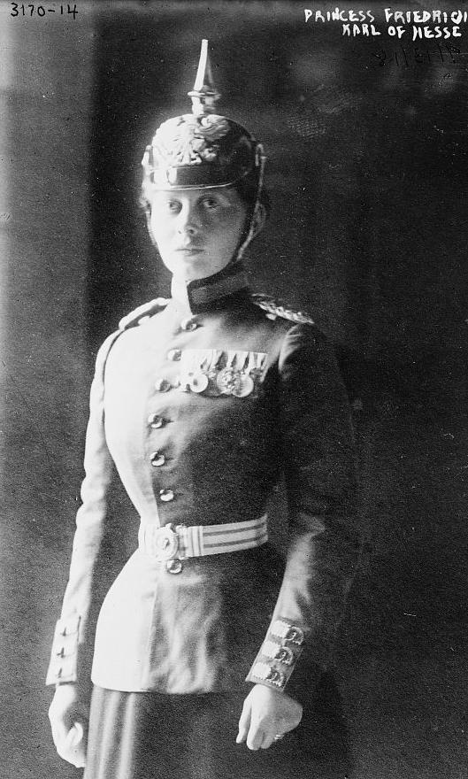 Princess Frederick Charles of Hesse (Mossy)